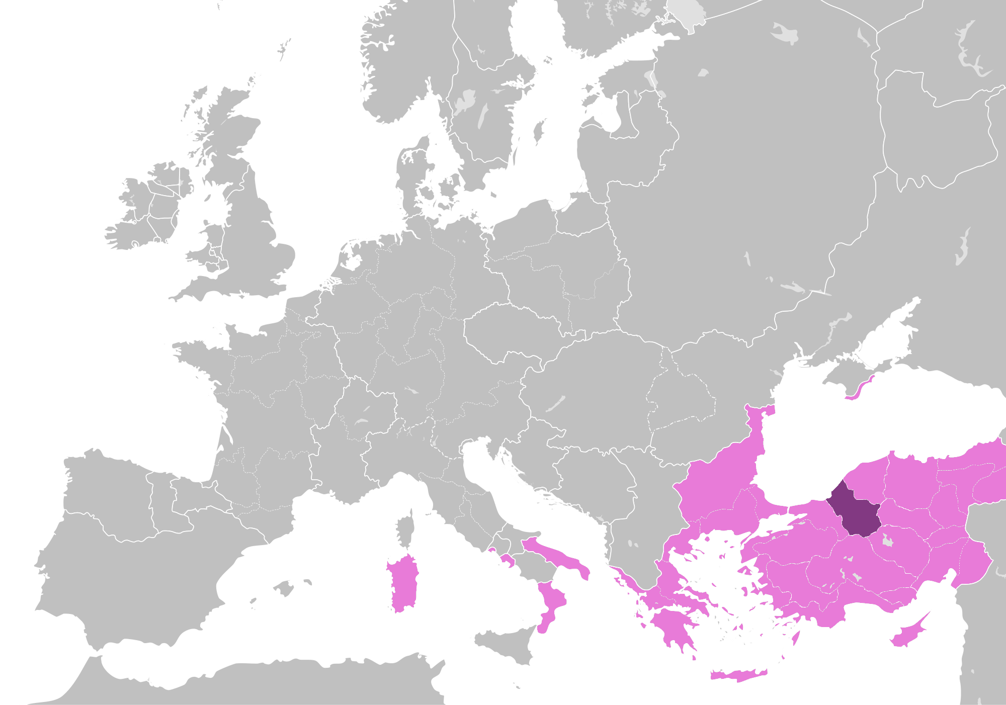 Map of the Bucellarians Theme within the Byzantine Empire in 1000 AD. Based on